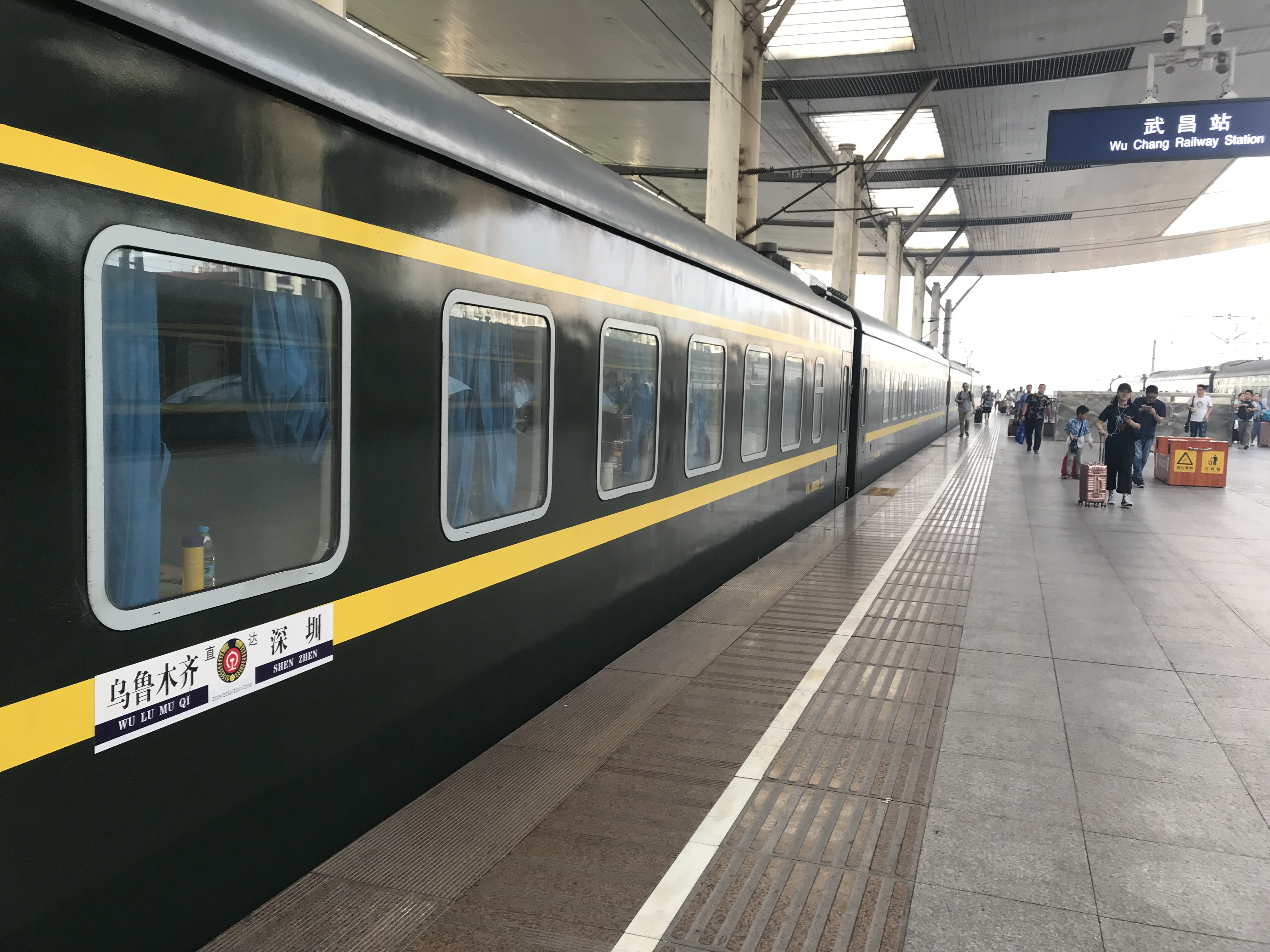 201906 Coaches of Z229 at Wuchang Station